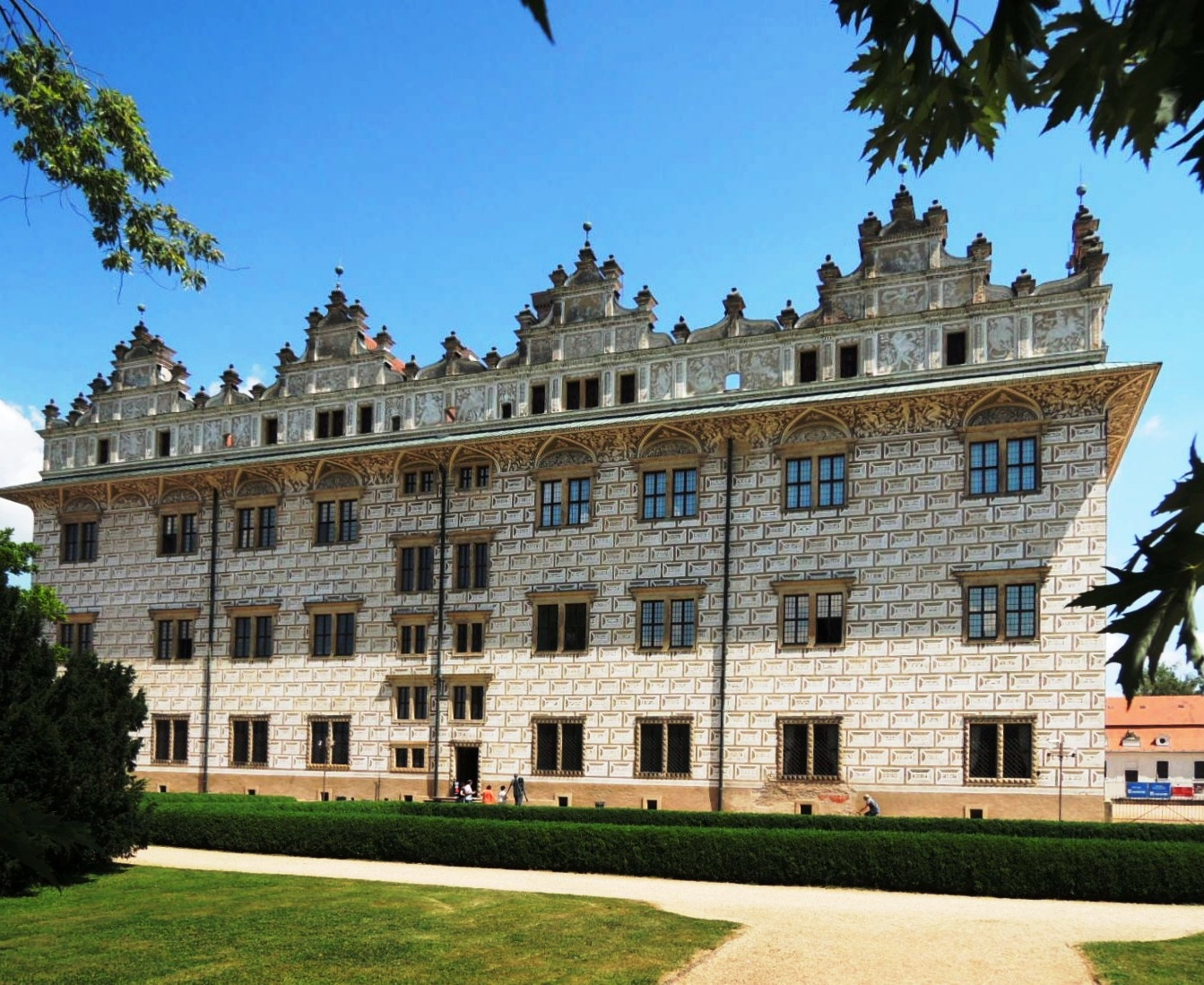 Litomyšl, Castle from SW